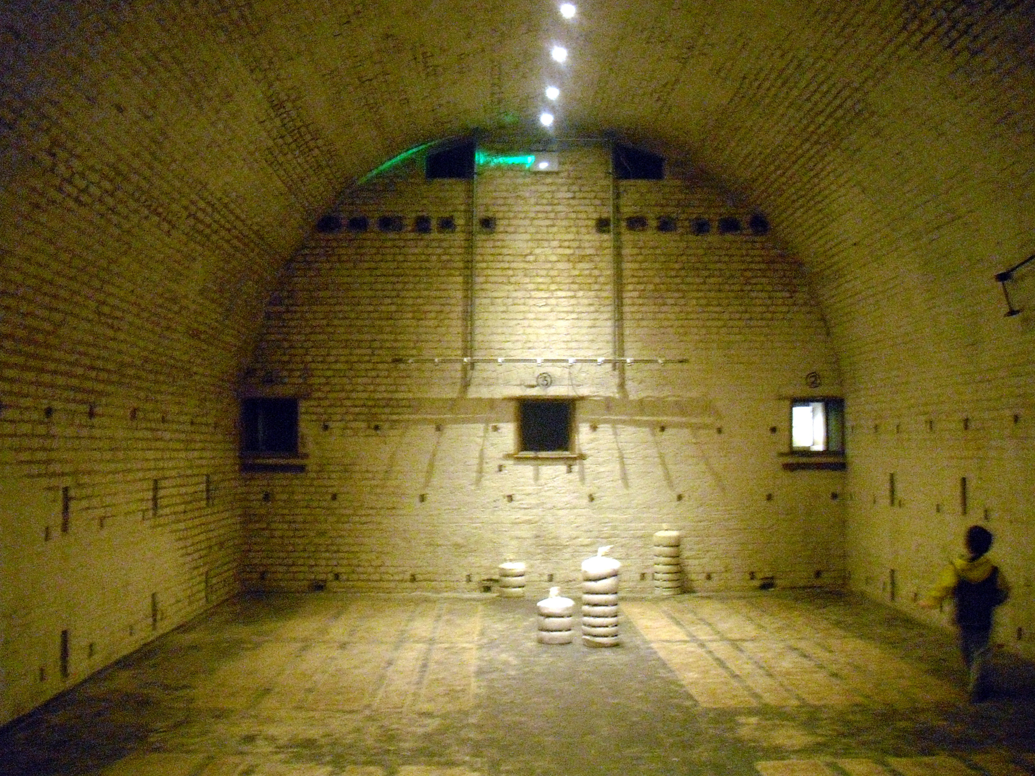 Camden Fort Meagher, close to Crosshaven, County Cork, Ireland (Magazine)